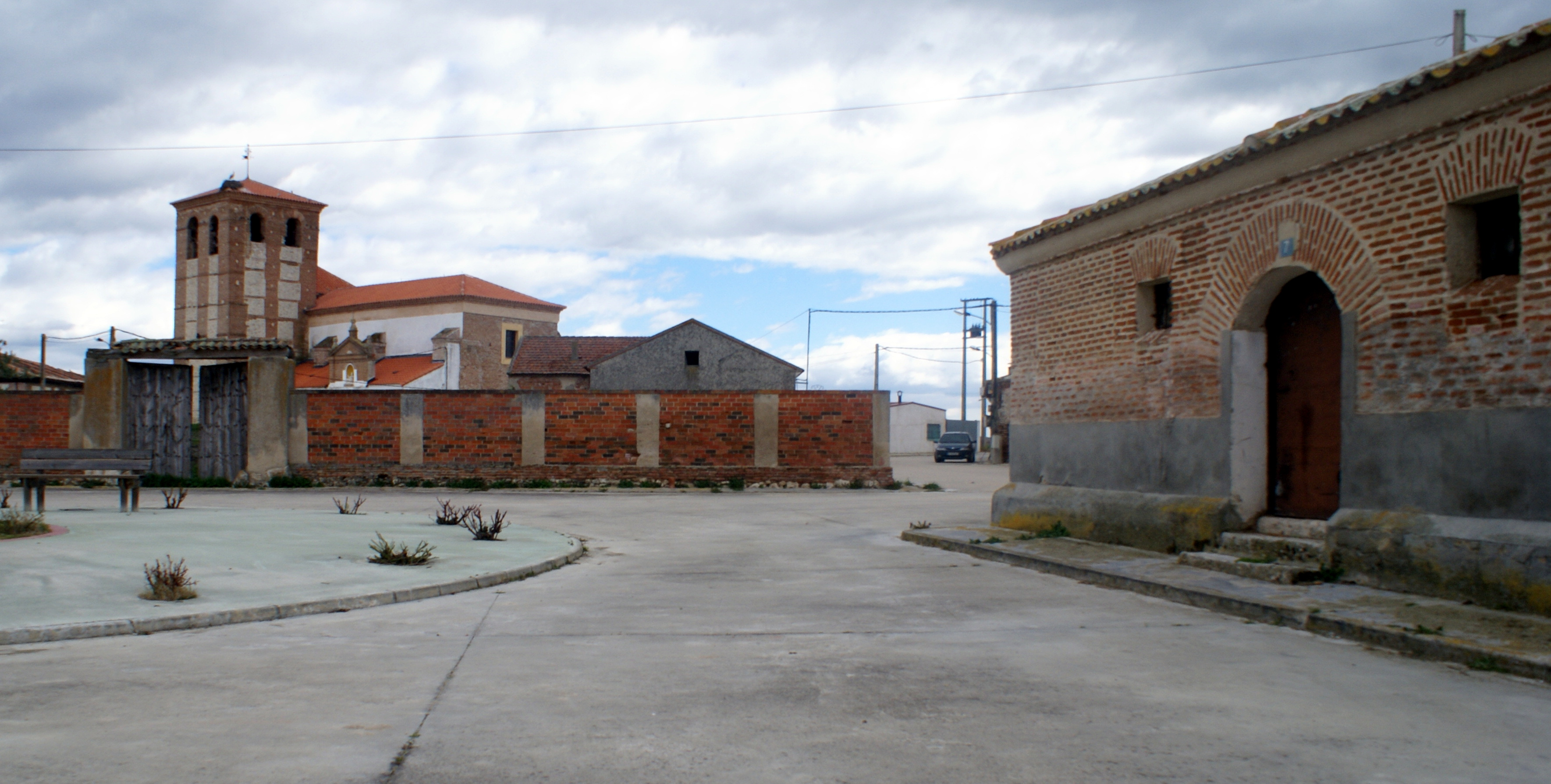 View of Aguasal, Valladolid, Spain, with the church and the granary.